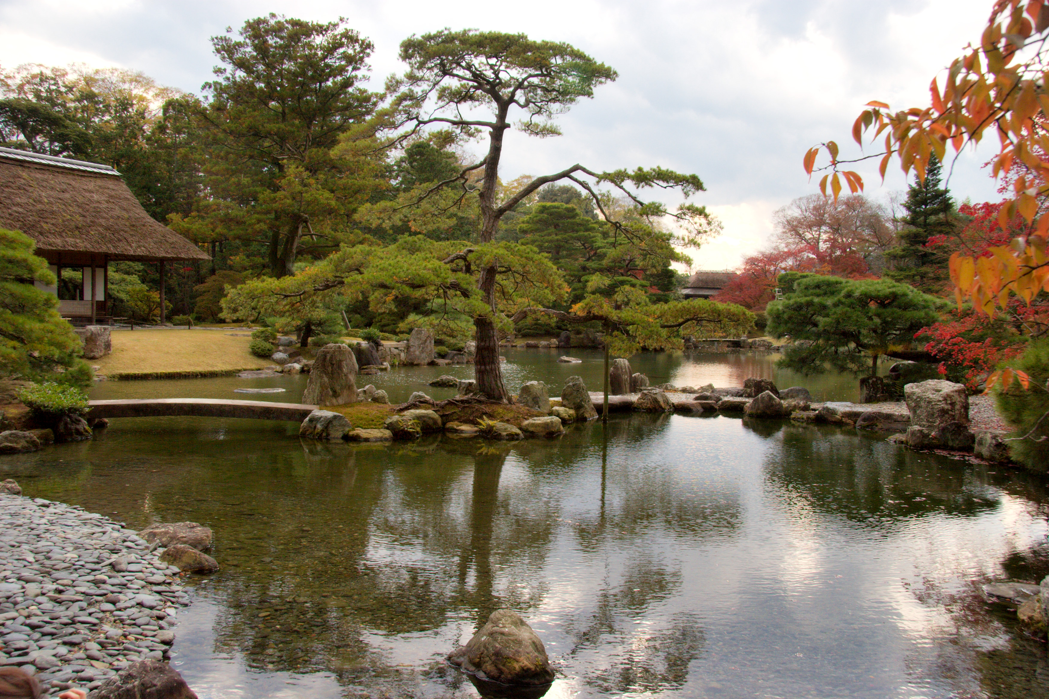 Katsura Rikyu